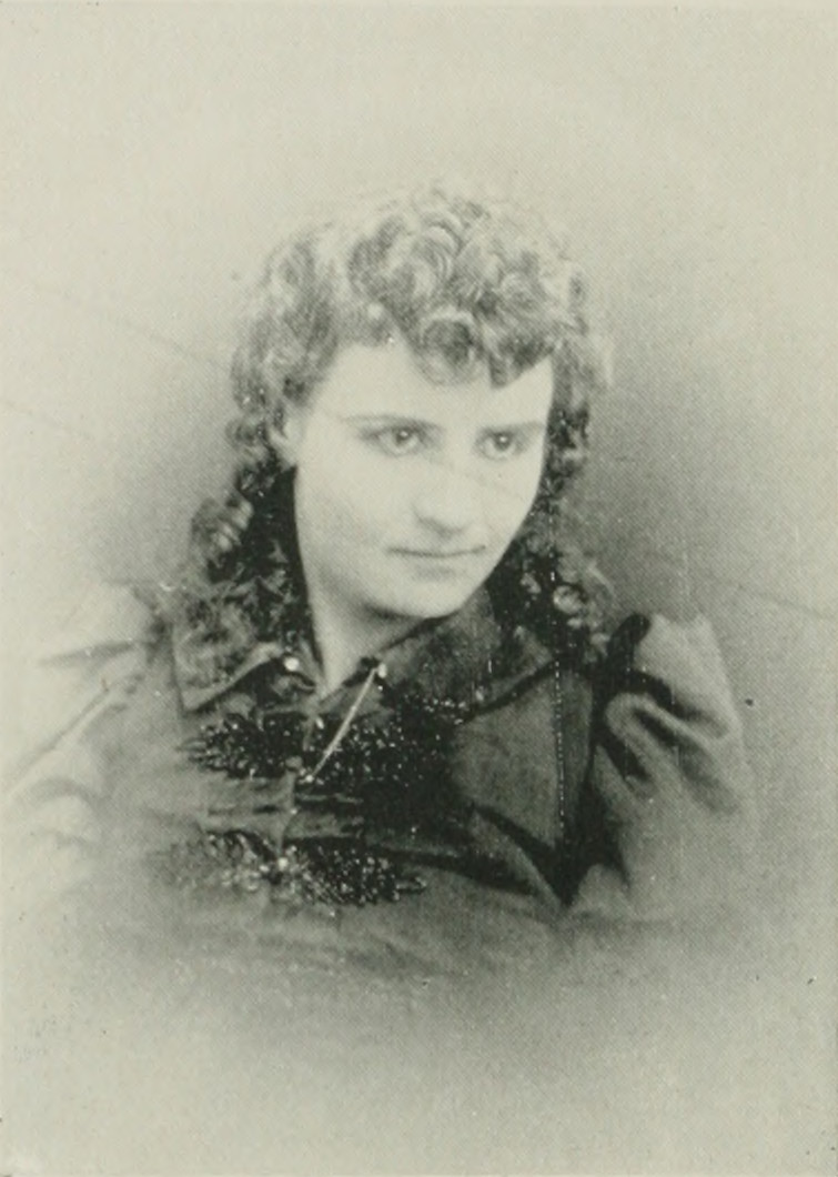 Depicted person: Alice A. Andrews – American composer and director